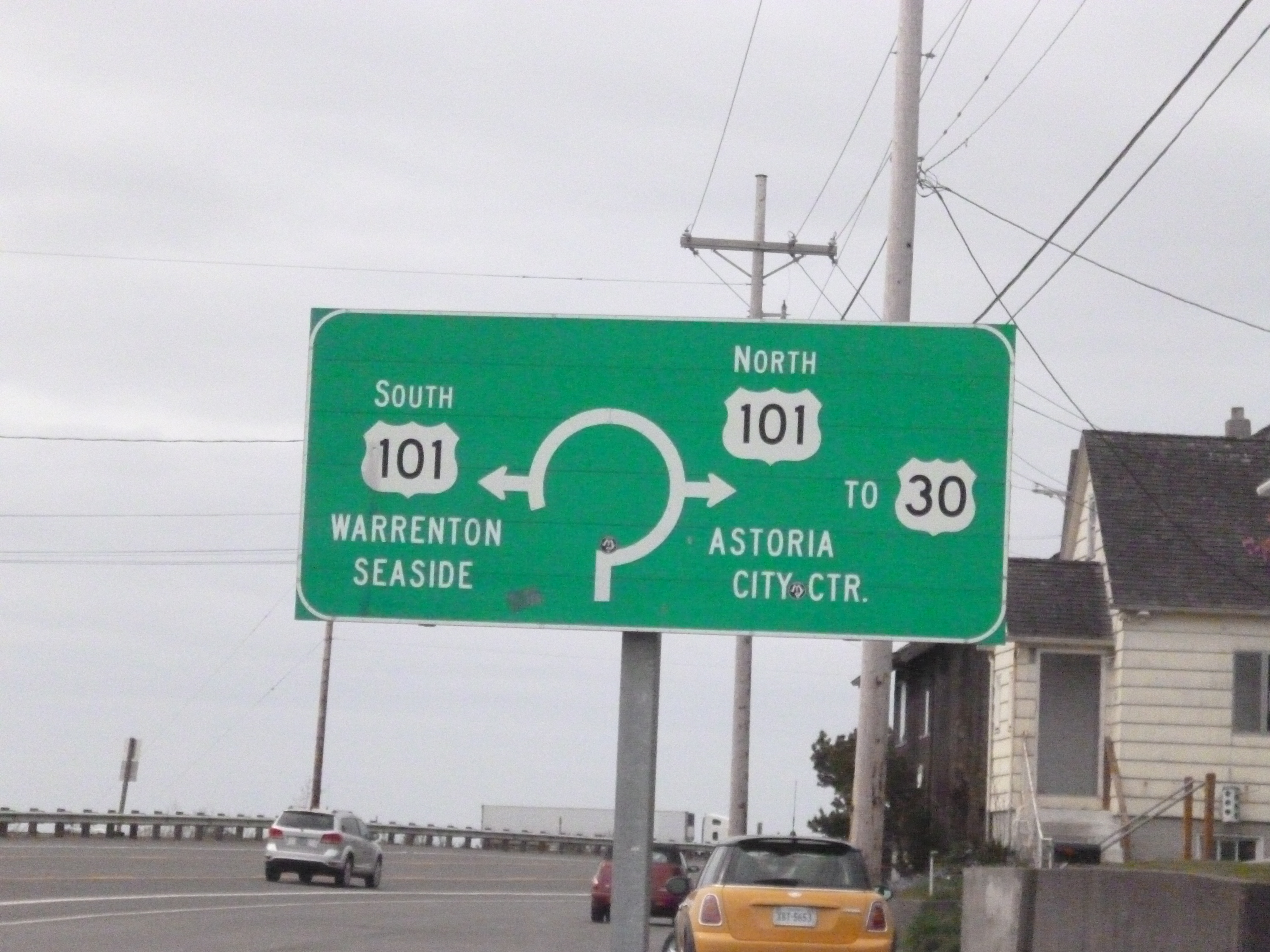 Sign at intersection of US Route 101 and Business Route 101, Astoria, Oregon.